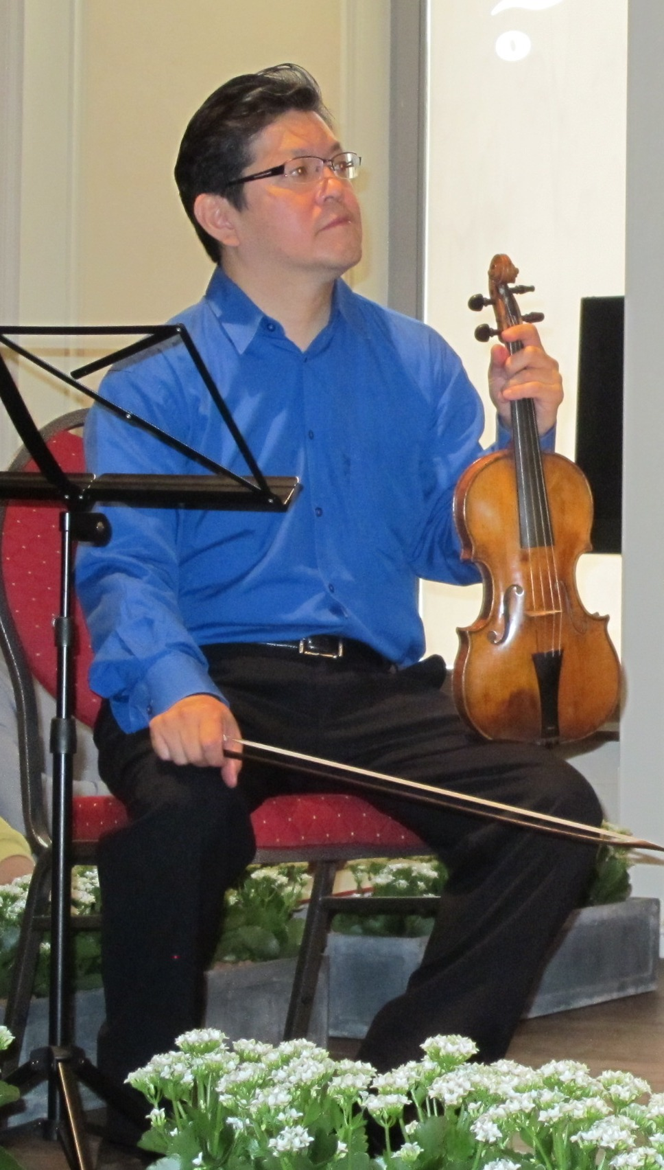 Ryō Terakado